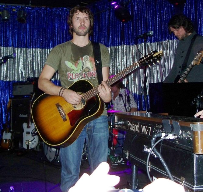 James Blunt at Spaceland, Los Angeles, CA